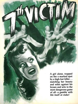 Early conceptual artwork for The Seventh Victim (RKO Radio Pictures), prior to the script shift (1943).